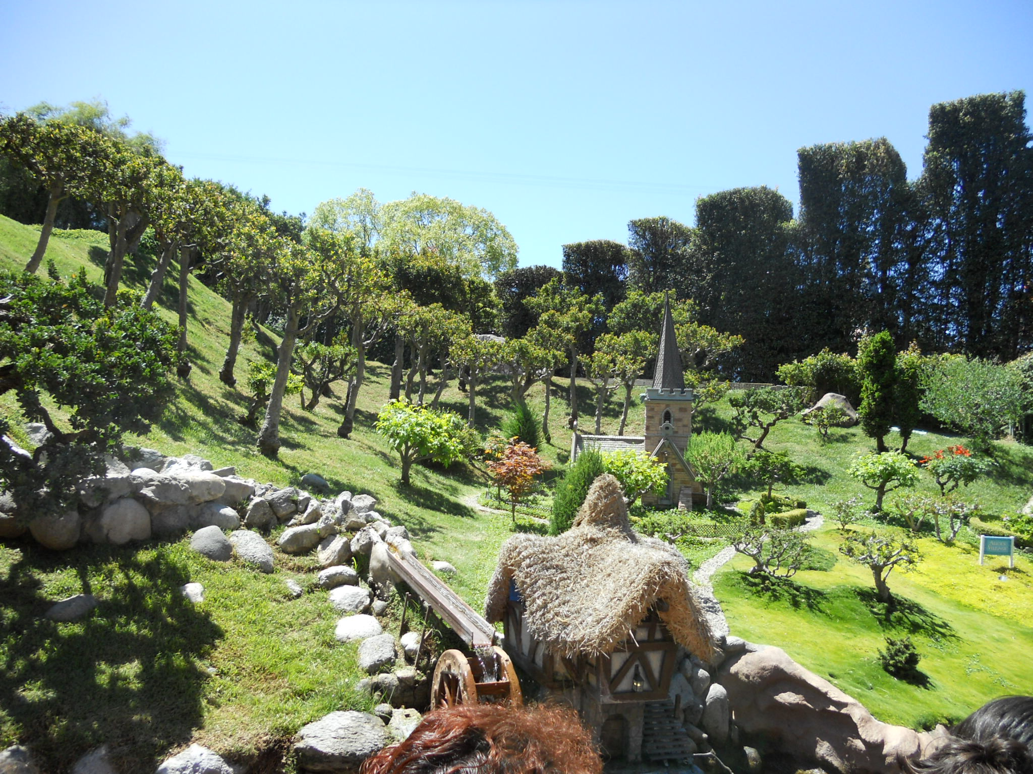 A cottage, waterwheel, and a church on a hillside